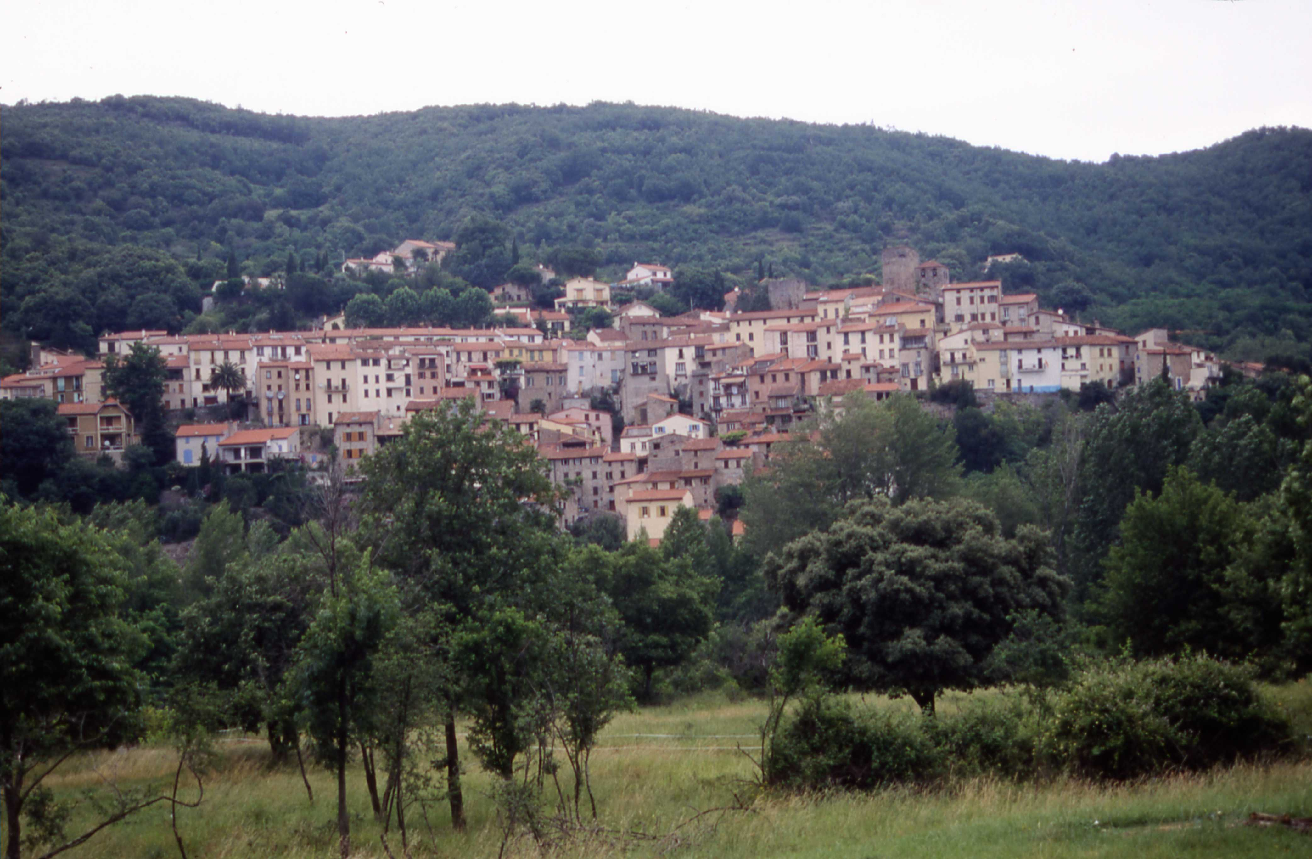 Vue générale de Palalda Amélie-les-Bains-Palalda, Pyrénées-Orientales, France.